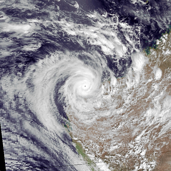 Tropical Cyclone Bobby on February 24, 1995. At the time Bobby had winds of 129 knts (148 mph, 239 kph), 1-min sustained and a pressure of 930 mbar. Bobby was about 45 miles away from land and 8 hours away from landfall. This image was taken by the NOAA-14 Satellite.